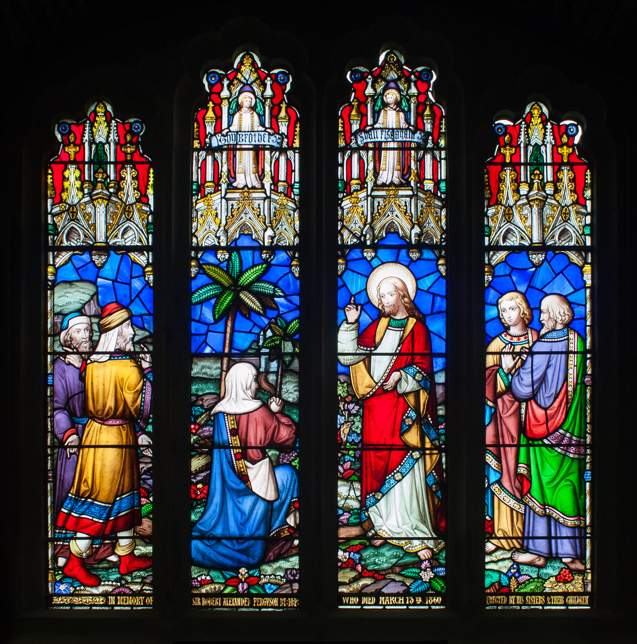 Third stained glass window in the south aisle (counting from west to east) in memory to Sir Robert Alexander Ferguson, member of Parliament for Londonderry City, who died on 13 March 1860. The depicted scene refers to John 11:23 “Thy brother shall rise again.” Manufactured by William Wailes, Newcastle-upon-Tyne, and installed in 1862. (See gloine.ie.)